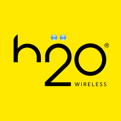 h2o wireless logo